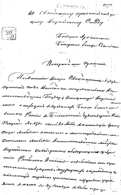 Iosif Sokolski Letter